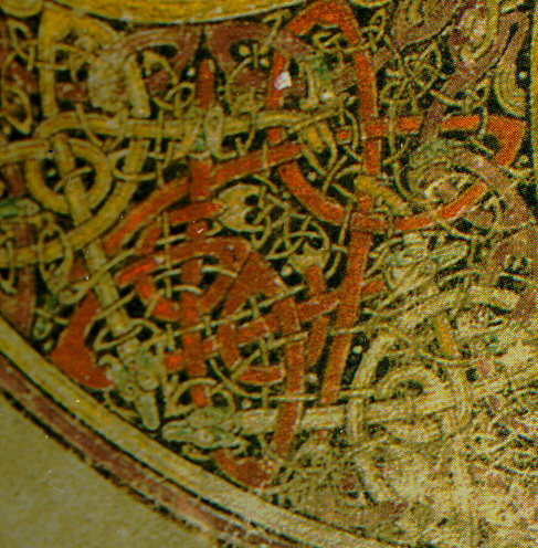 Scan of a photograph of a detail of Folio 34 recto (Chi Rho page) of the Book of Kells. The Book of Kells was created c. 800 CE.